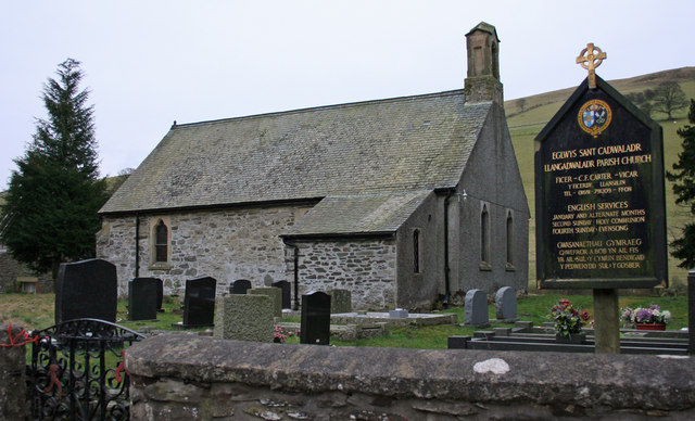 Church and Grave Yard, near to Llangadwaladr, Powys, Great Britain. Llangadwaladr Parish Church Eglwys Sant Cadwaladr.